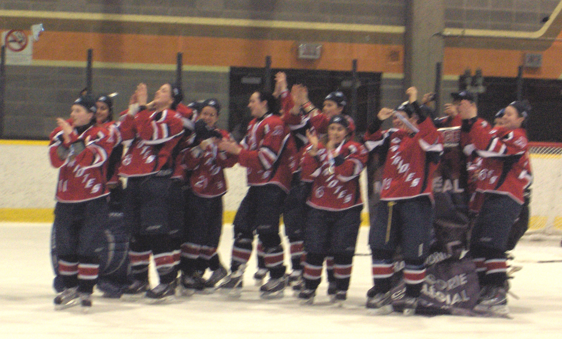 Victory of Patriotes du Cégep St-Laurent at the championship game 2010-11 (Ligue de hockey féminin collégial AA). New photo with photoshop processing